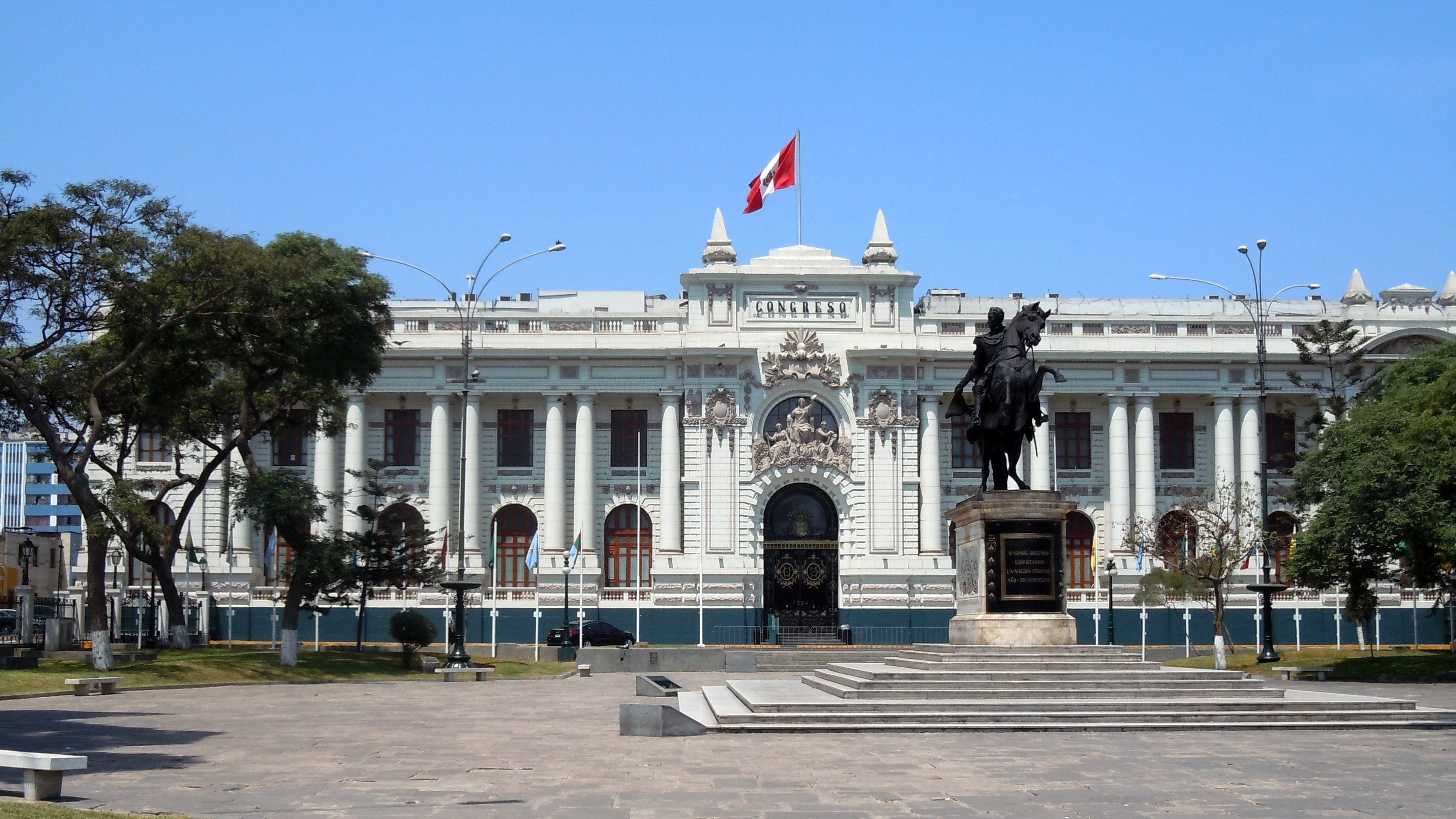 Congress Building.